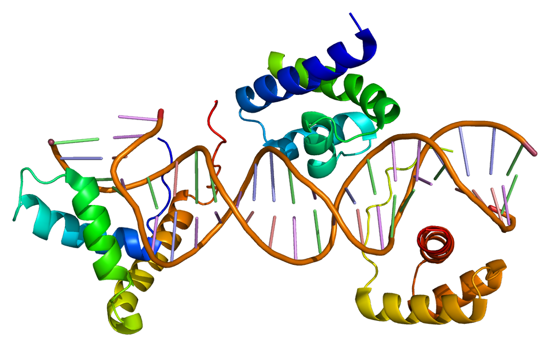 Structure of the SOX2 protein. Based on PyMOL rendering of PDB 1gt0.